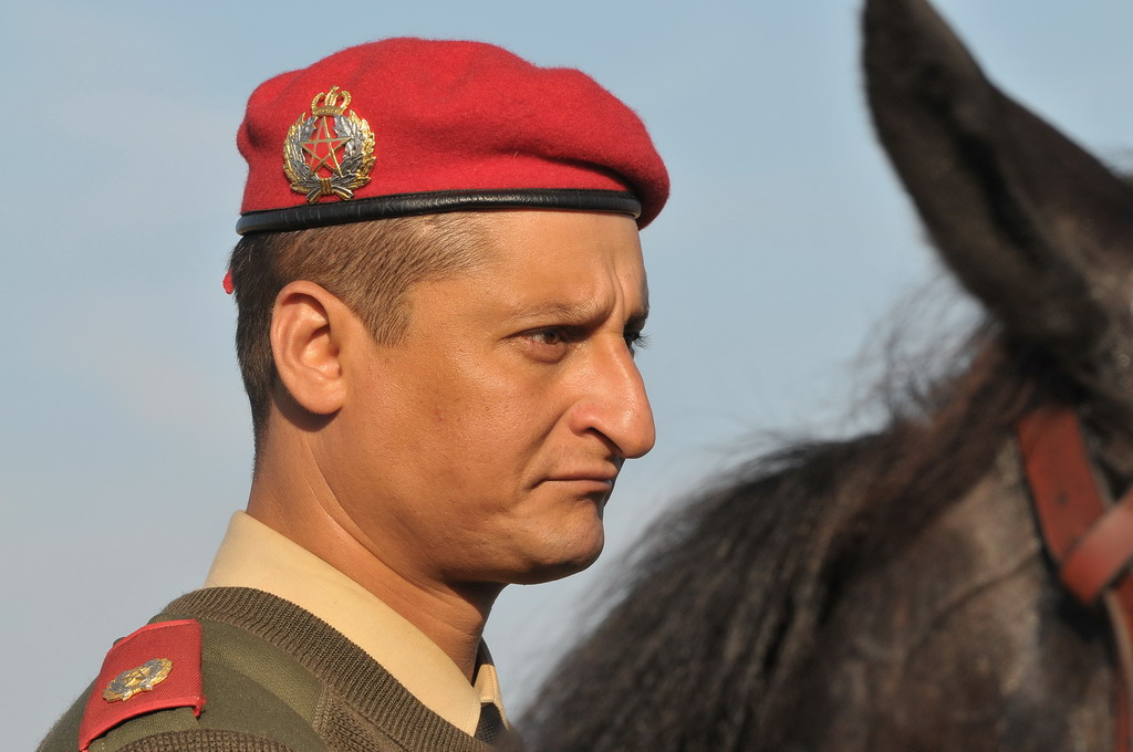 Each year on Prinsjesdag (day of the 'Prince lings' or Day of the Queen’s Speech) the Dutch queen addresses a joint session of the Houses of Parliament in the Ridderzaal (Hall of Knights) in The Hague. Today the final rehearsal for the equestrian escort on the beach of Scheveningen.